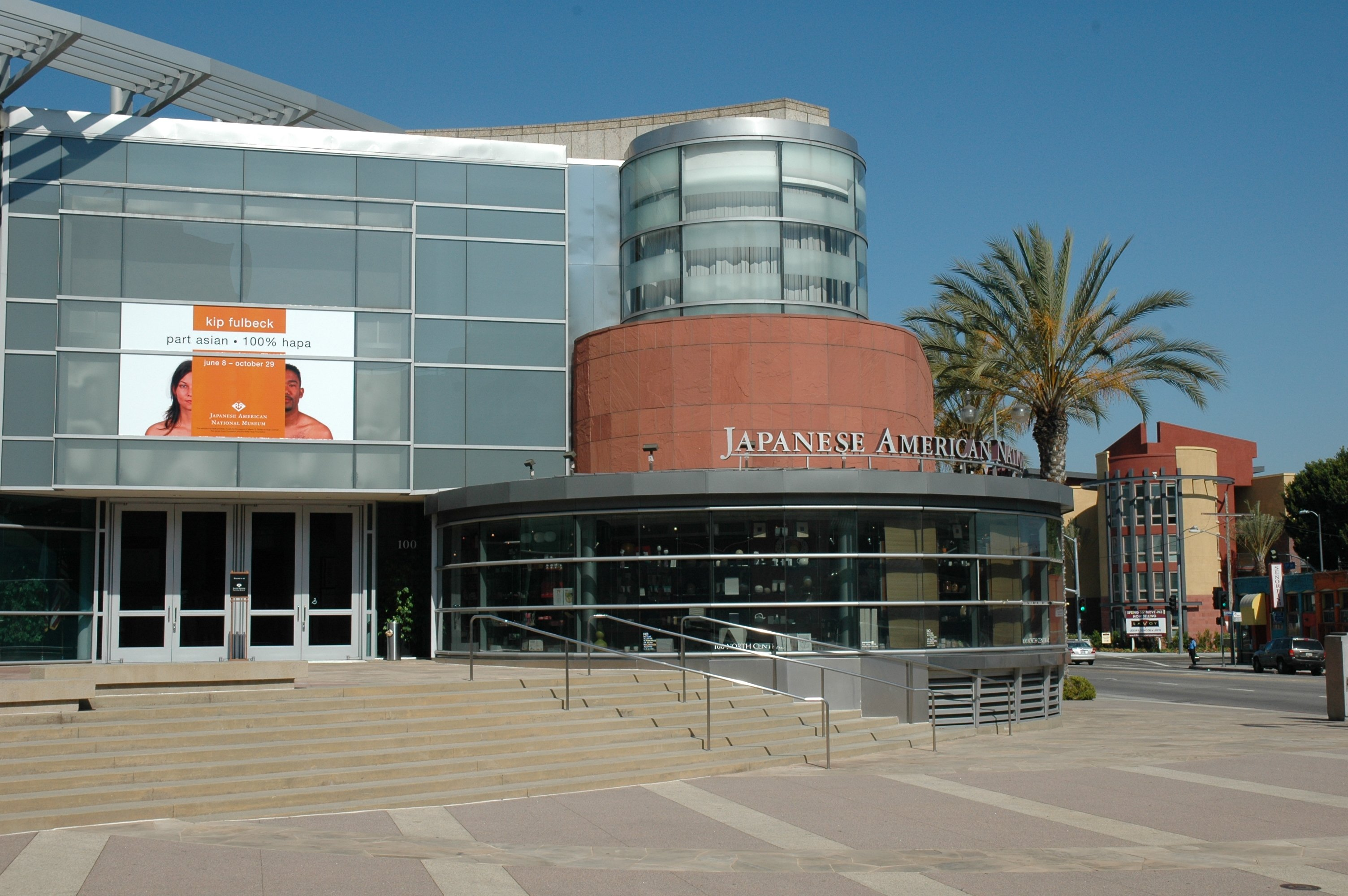 Japanese American National Museum.